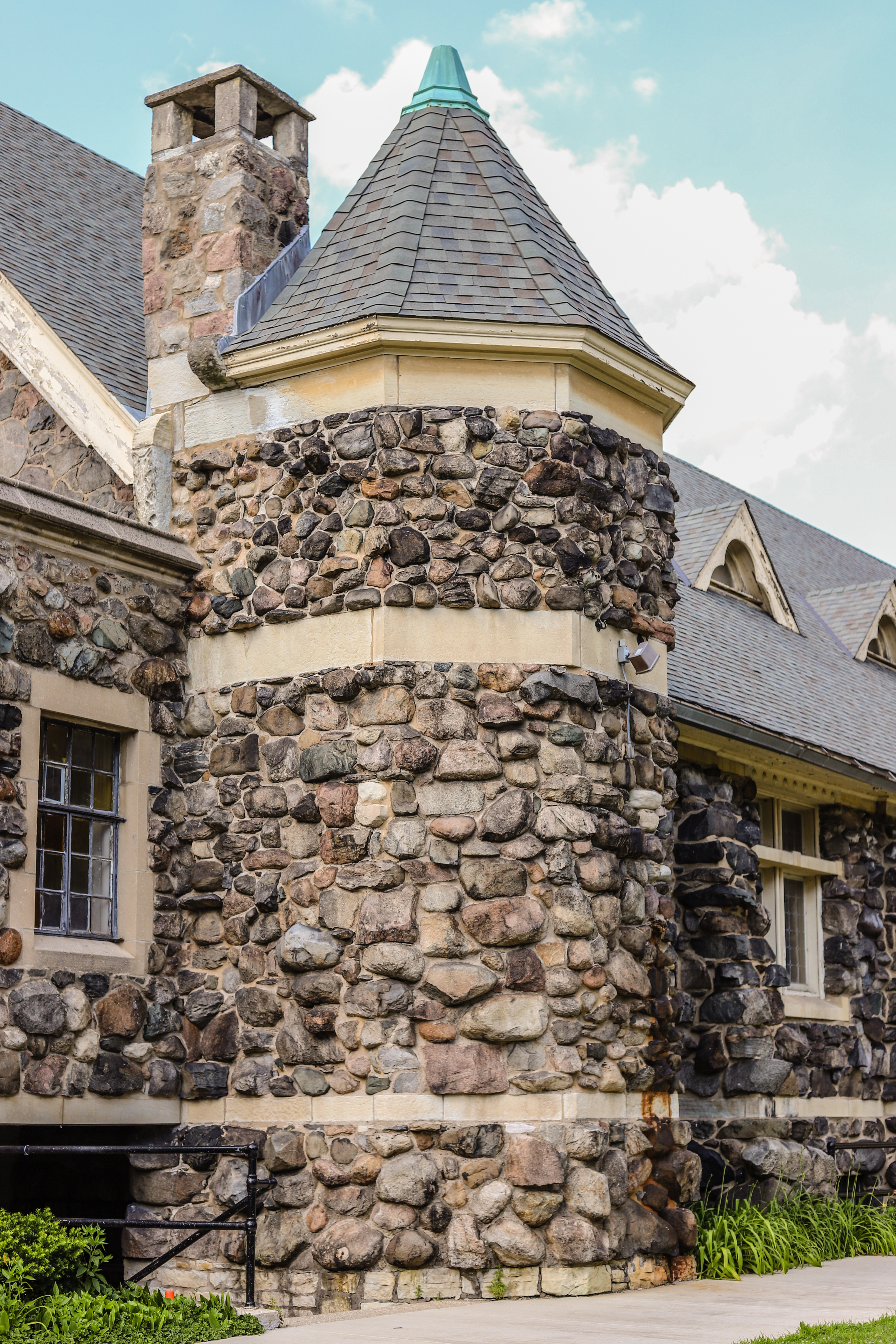 Epworth United Methodist Church, originally built as Epworth Methodist Episcopal Church, 5253 N. Kenmore Ave., Chicago, Illinois. Architect: Frederick B. Townsend, 1890.